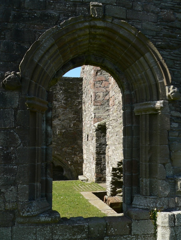 Whithorn Priory, Whithorn, Dumfries and Galloway, Scotland - east entrance of nave